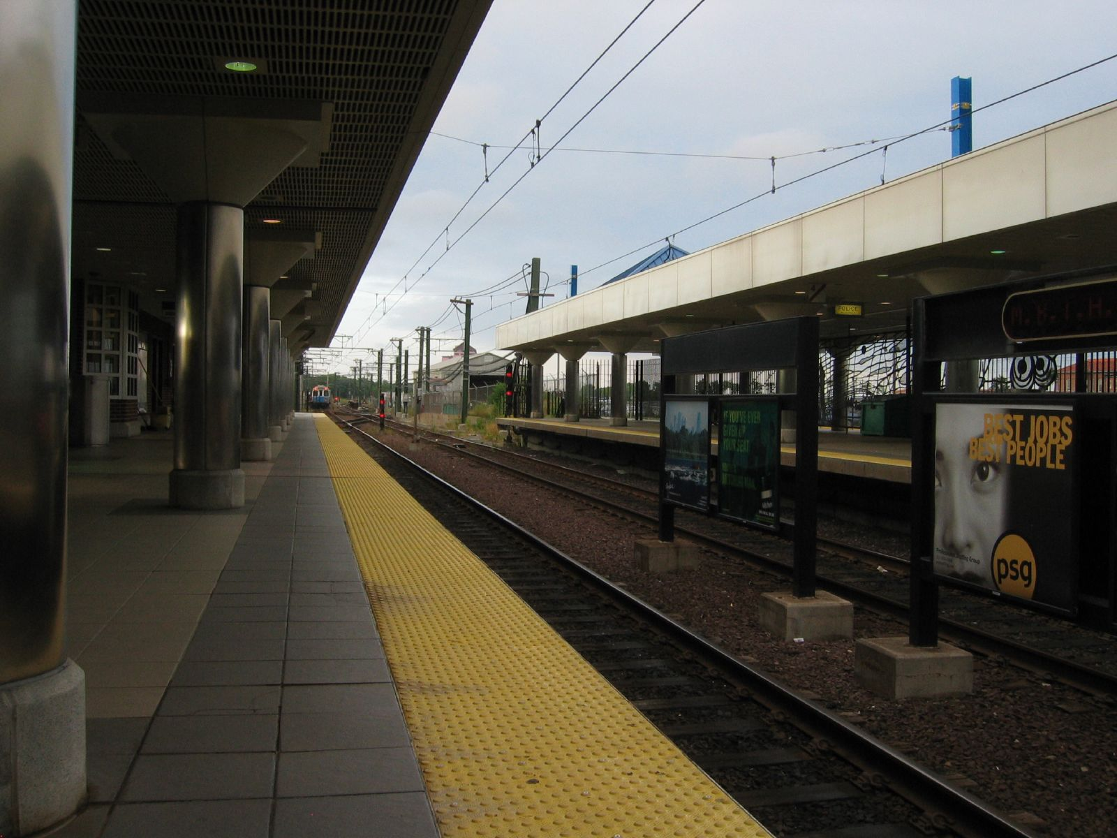 The terminus station Wonderland of the Blue Line in Boston